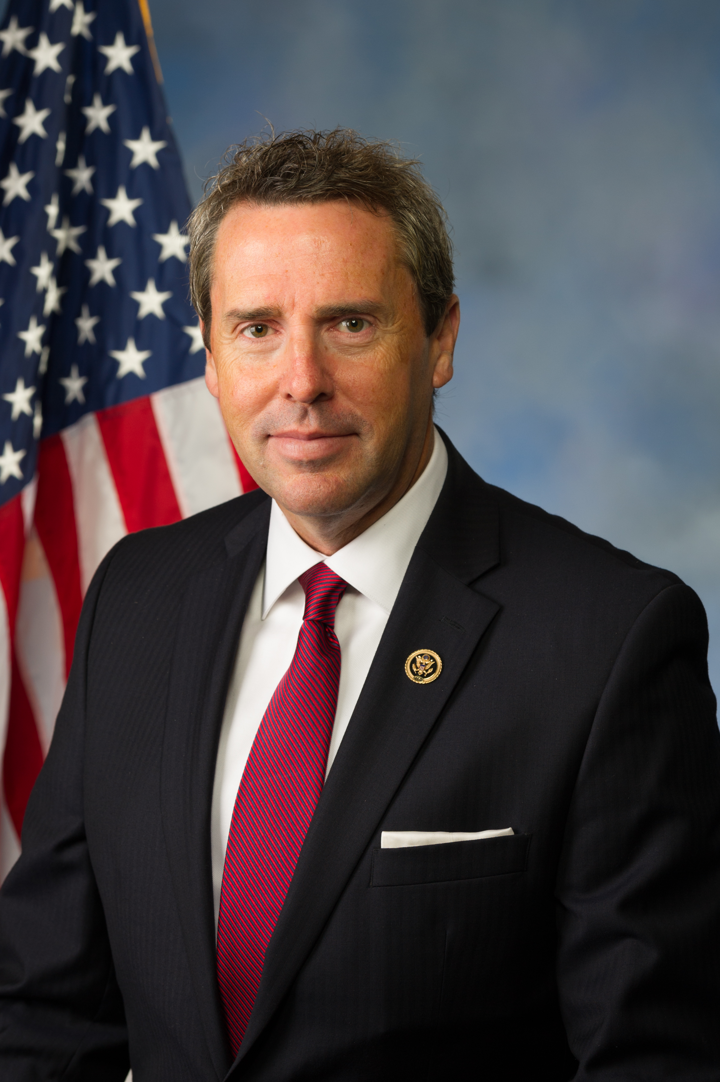 Walker Official Photo 2017